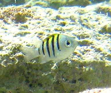 A juvenile Sergeant major (Abudefduf saxatilis) in a tidal pond. Taken near Puerto morelos, Mexico.